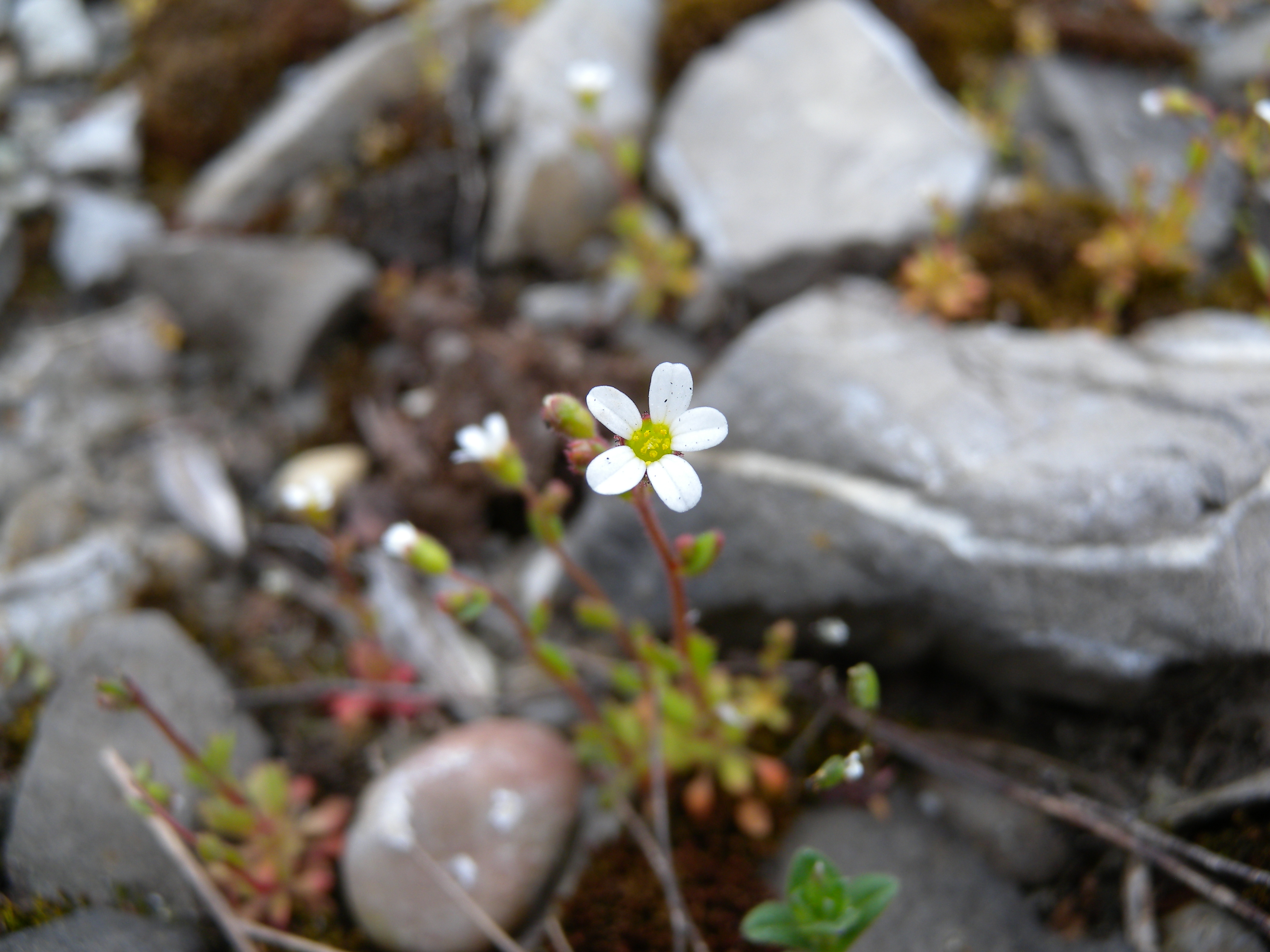 Flower of Saxifraga tridactylites (Saxifragaceae), Bern, Switzerland